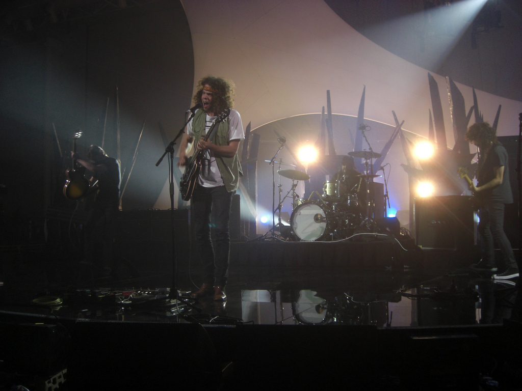 Wolfmother performing at the 2009 MTV Australia Awards on March 27, 2009. Uploaded by Flickr user "hannah doolan" on May 22, 2009.